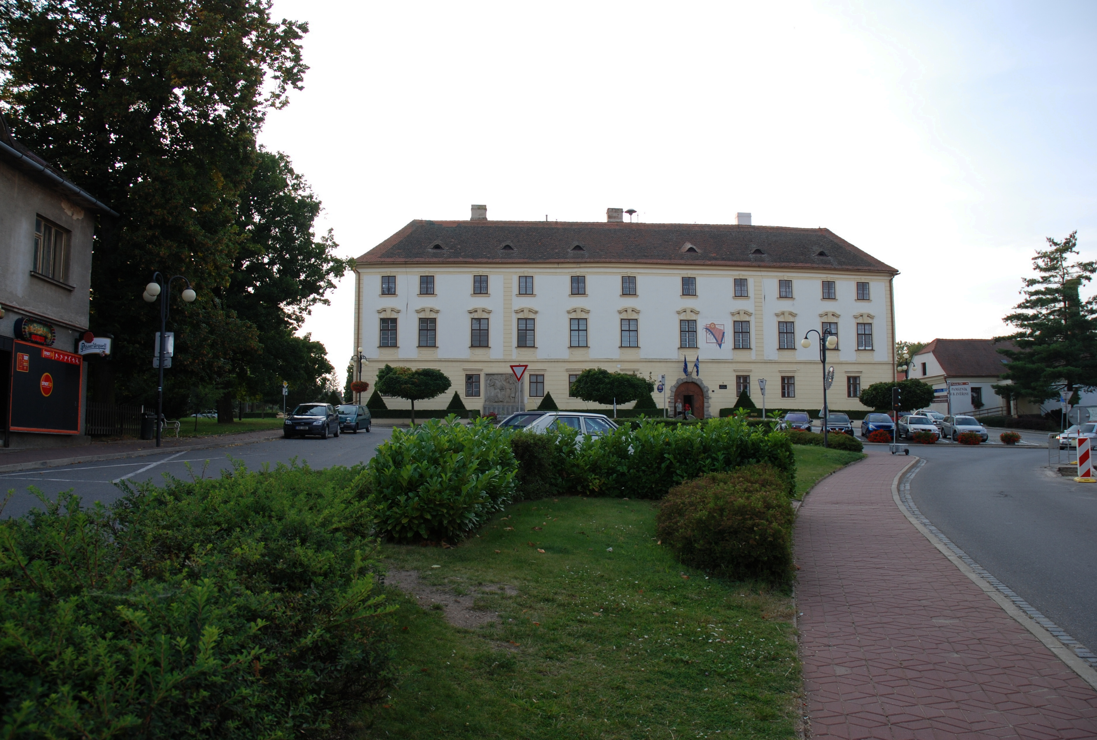 Hrotovice council